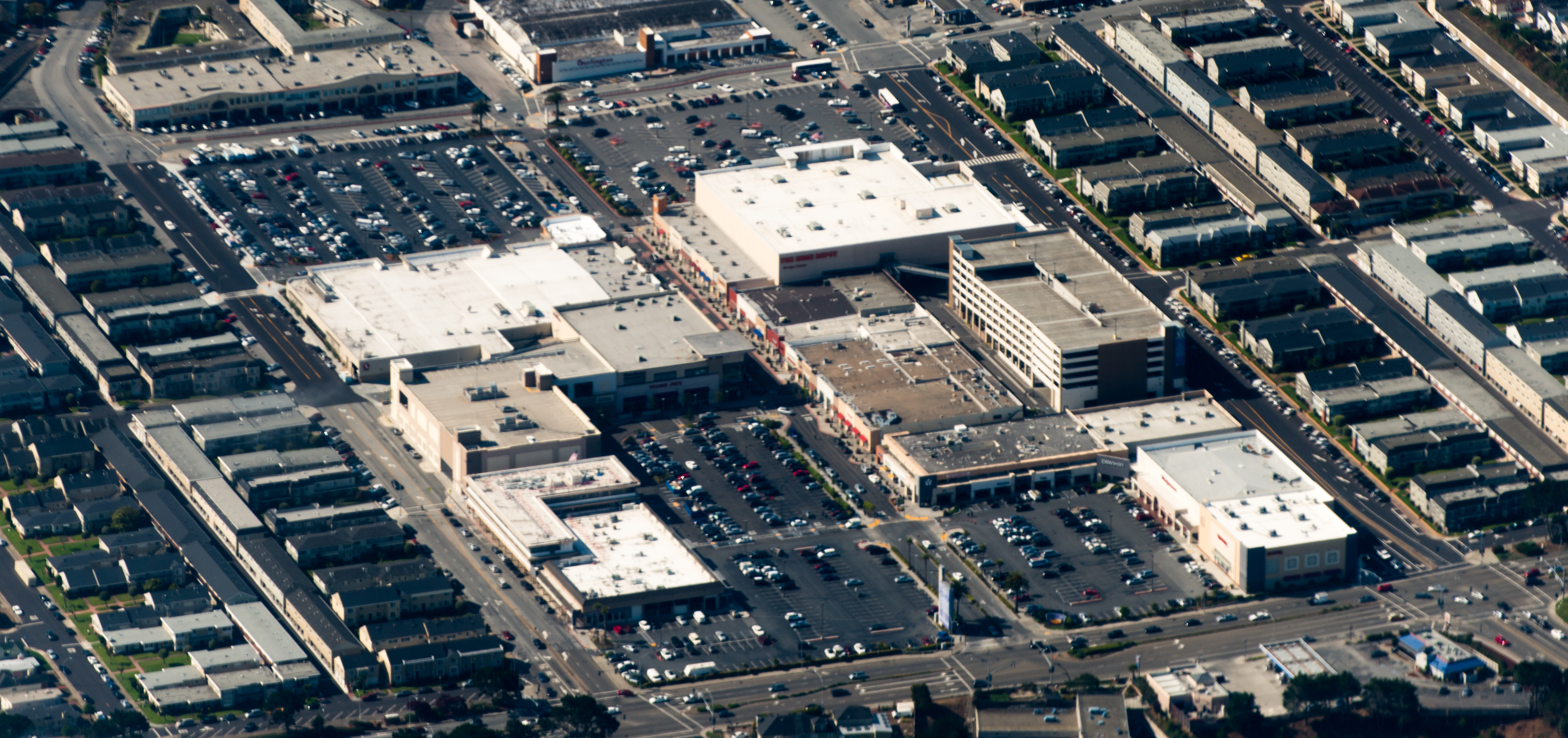 Aerial view of Westlake Shopping Center, San Francisco